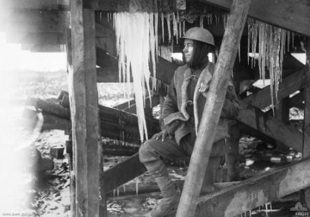 Informal portrait of Sergeant John Woods Whittle VC DCM at a frozen water point in France during 1916. Note: the AWM online file of this image claims the person in it to be unidentified. However, in Anthony Staunton's Victoria Cross: Australia's Finest and the Battles they Fought it has been conclusively identified as Whittle.